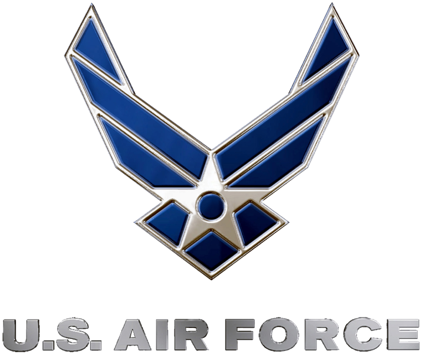 United States Air Force logo, blue and silver. Cropped out for transparency using Photoshop.